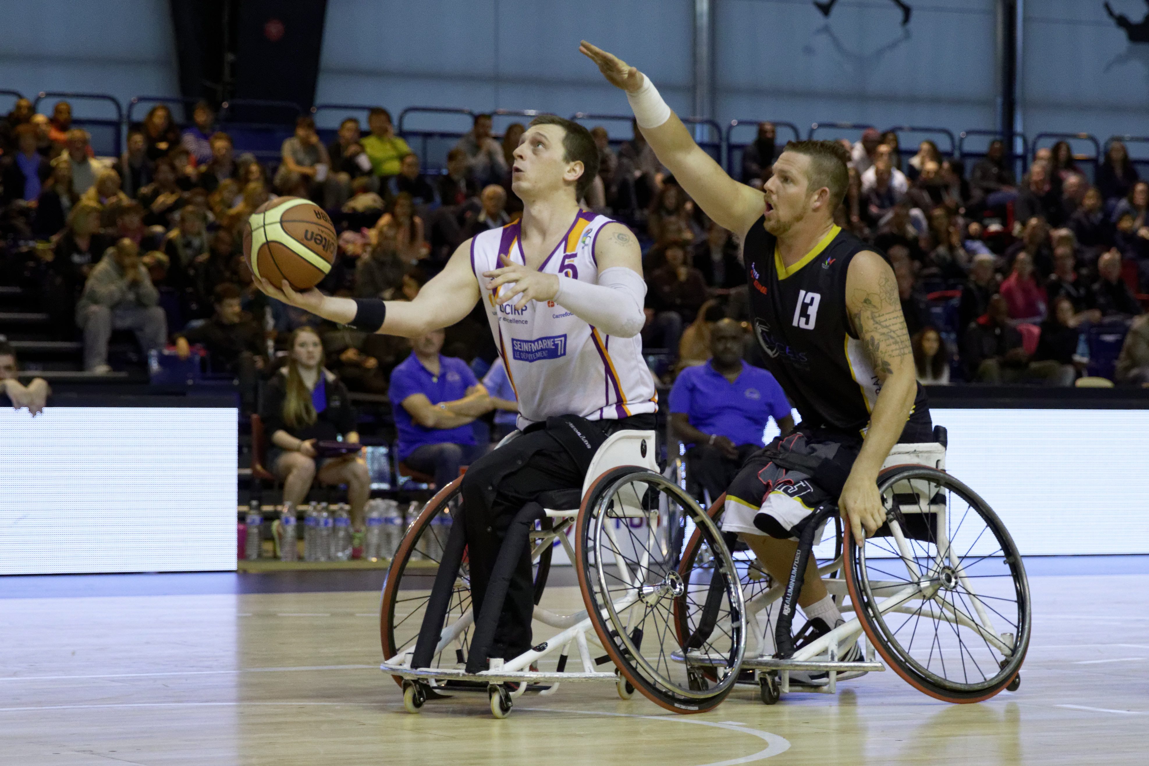 Final of the French Wheelchair Basketball Cup, CS Meaux vs Le Cannet, 1st May 2015.